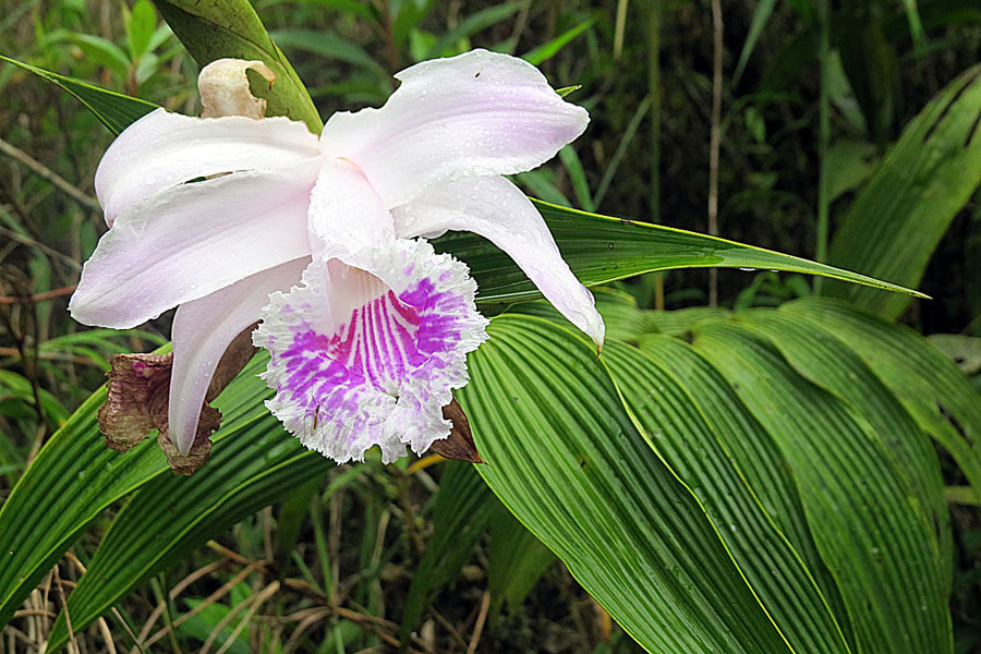 A large, terrestrial orchid found from Colombia to Peru. Photo from beside the Pucuno River, Ecuador. In context at